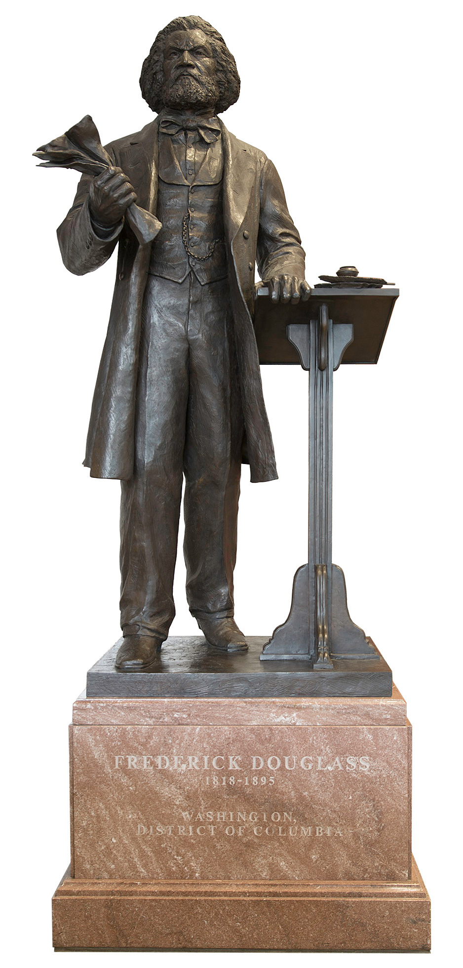 Frederick Douglass statue NSHC